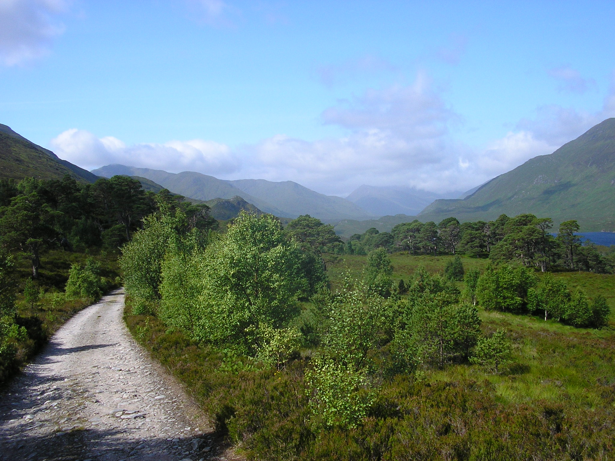 View along Glen Affric, with a bit of Loch Affric visible to right.